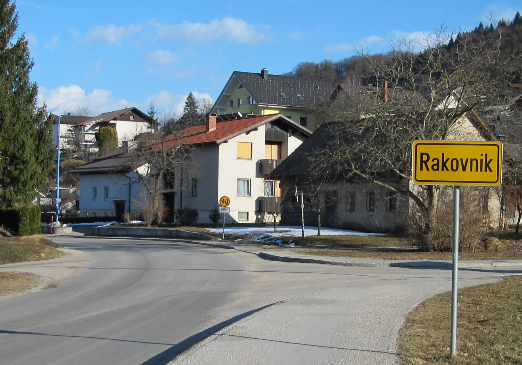 The settlement of Rakovnik in the Municipality of Medvode, Slovenia